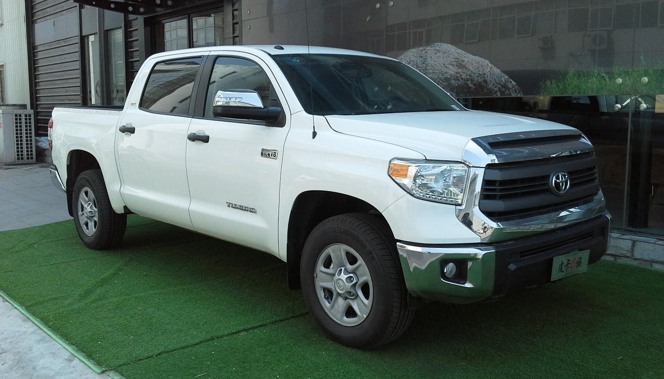 Toyota Tundra III CrewMax photographed in Beijing, China.